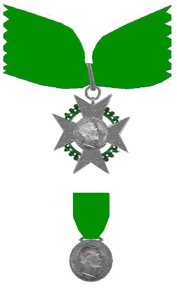 Verdienstkreuz für Kunst und Wissenschaft Saksen-Coburg und Gotha Cross of Merit for Art and Sceince Saxe-Coburg and Gotha With silver medal for Art and Sceince